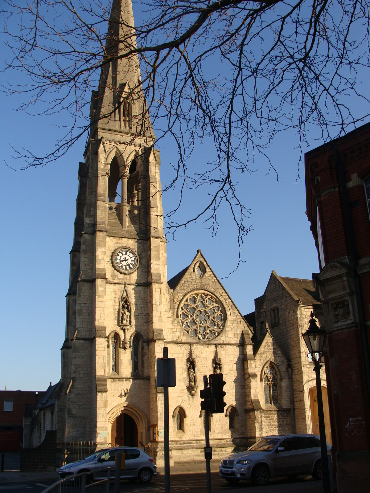 St Peter's Roman Catholic Church, London Road, Gloucester, England, seen from the south